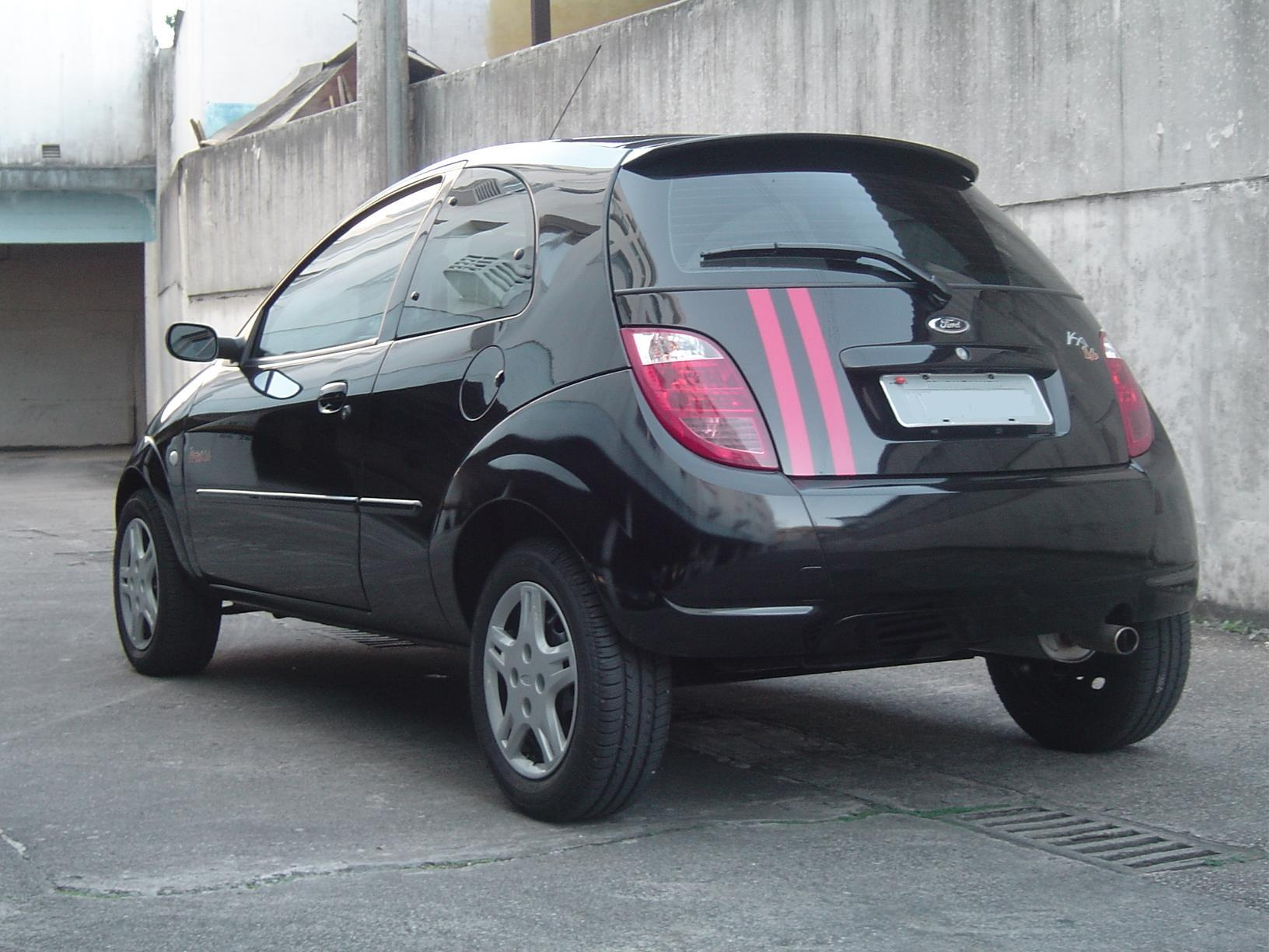 Ford Ka built in Brazil